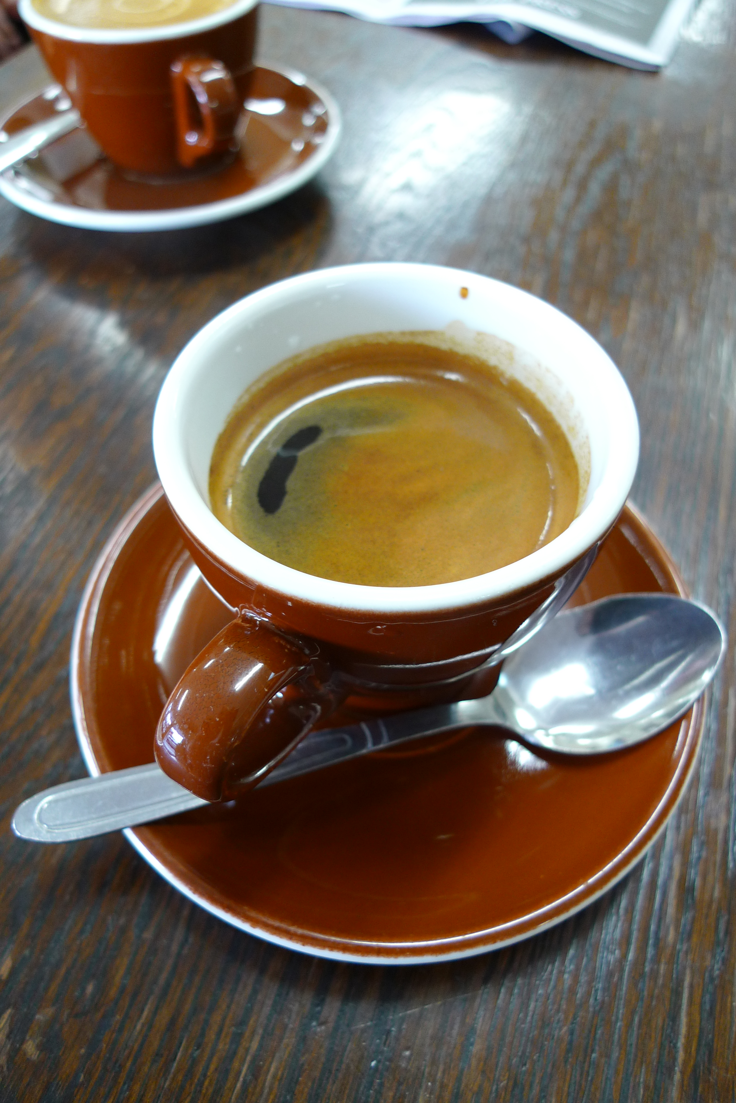 Black coffee made by a proper barista, and served in de rigueur brown cup (well, at least, they seemed to be everywhere in NZ). Like a lot of NZ coffees, this was technically a 'long black' (aka an Americano), but very strong, closer to an espresso. At Hokitika Cheese & Deli, Beach Street.